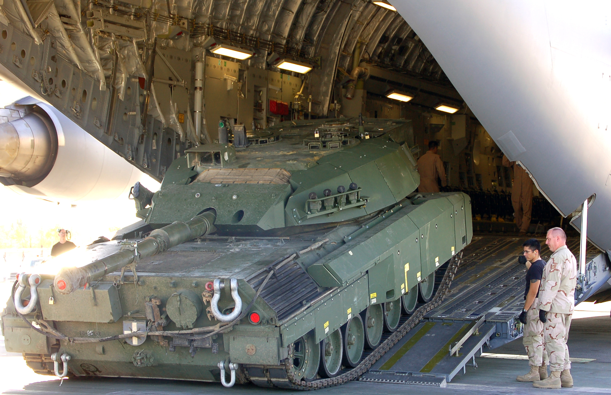 A Canadian Leopard tank is driven onto the C-17 Globemaster III named the "Spirit of McChord" for the transport Oct. 7 from Manas Air Base, Kyrgyzstan, to Kandahar Air Base, Afghanistan.